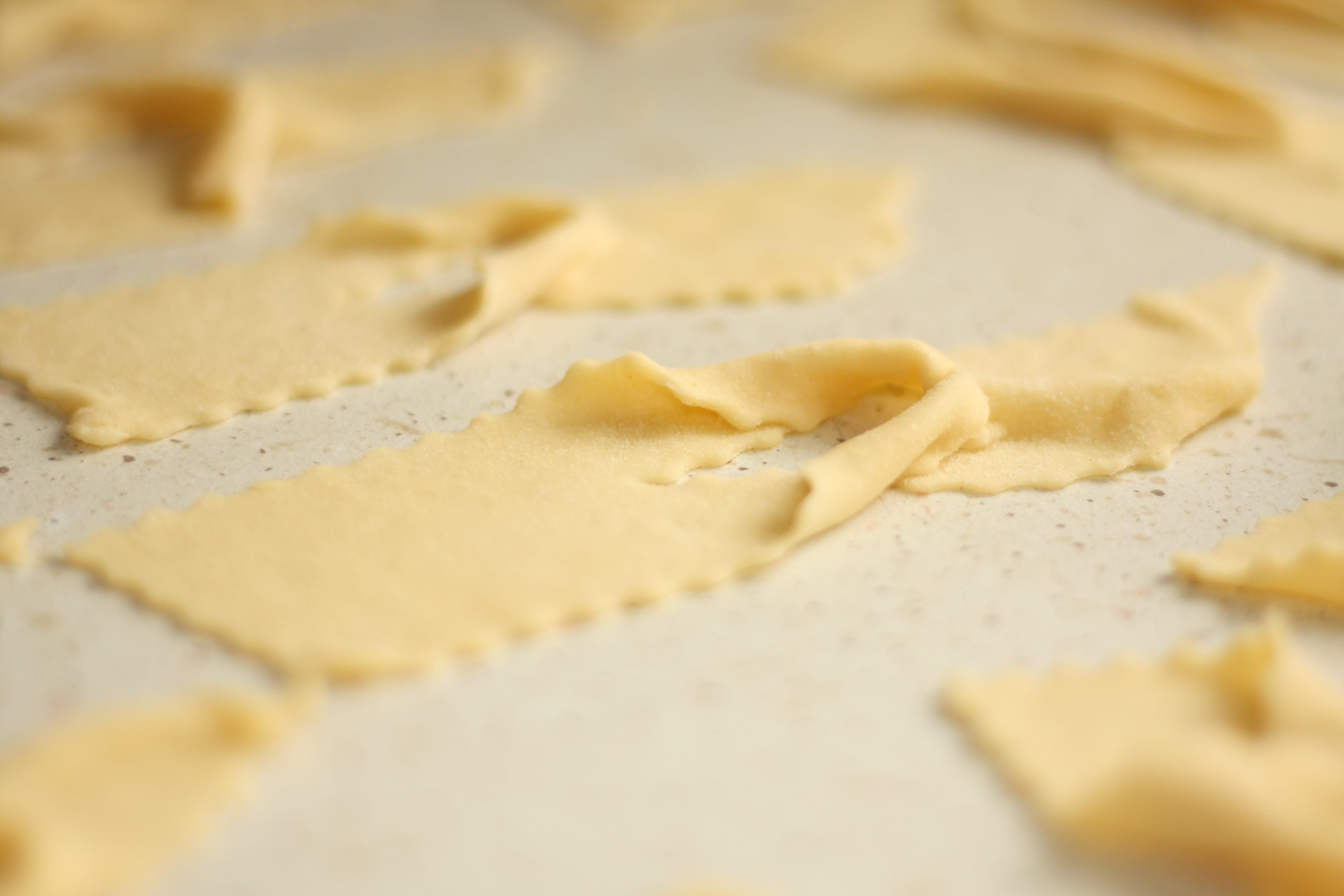 Angel wings.